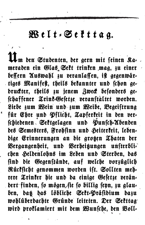 Corpsarchiv Rhenania Gießen